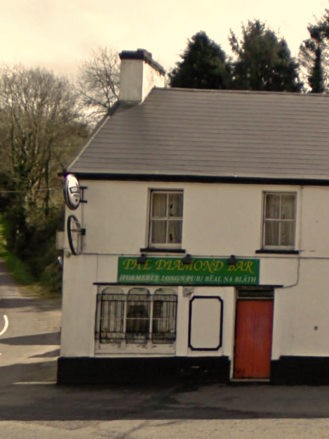 Farm house where the ambush for the assassination of Michael Collins was planed.